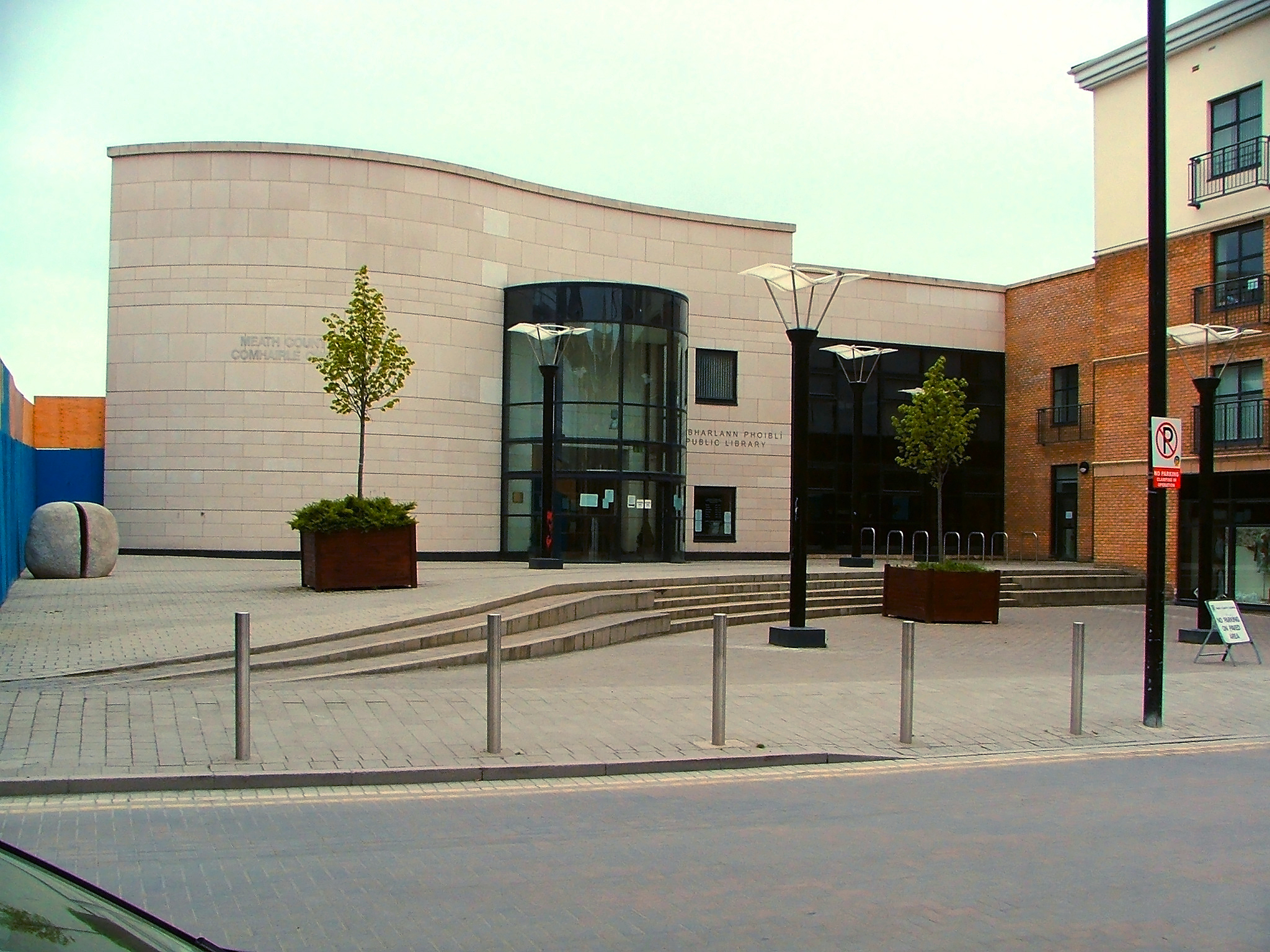 Council Offices and Library in Ashbourne, Co. Meath, Ireland